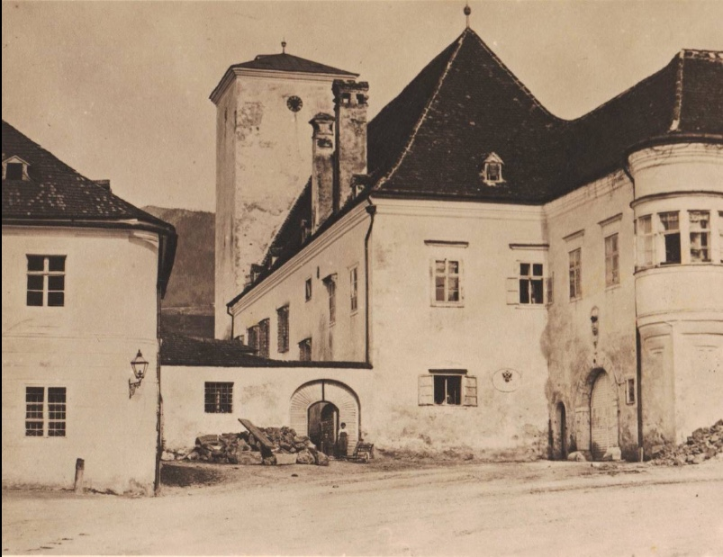 Schloss Scheibbs vor Töpper